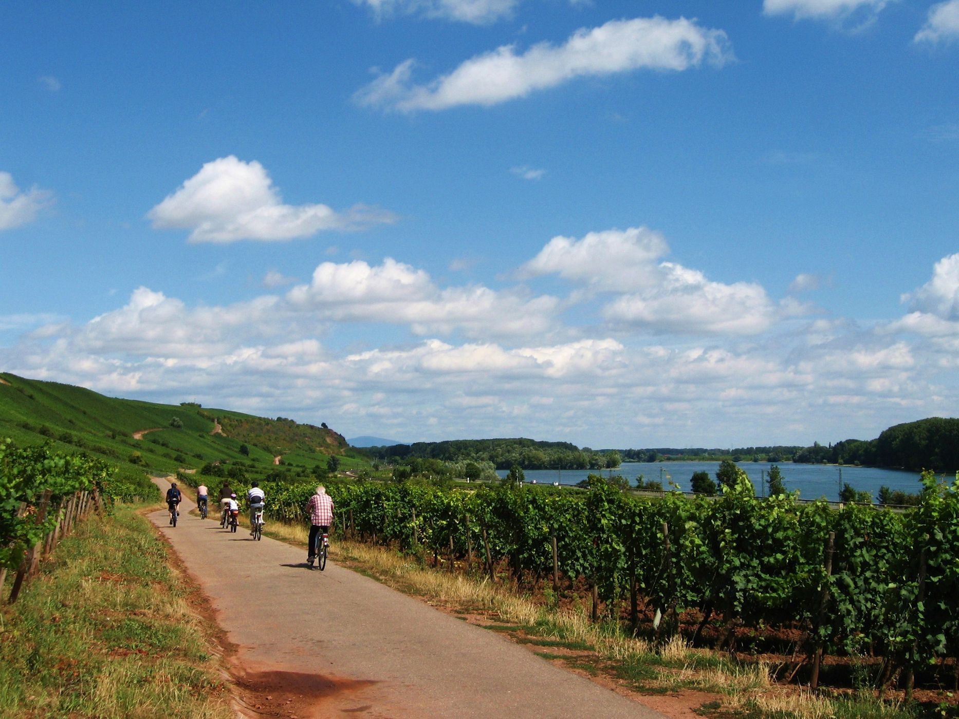 Germany / Rheinhessen: cycle treck rhine between Worms und Mainz